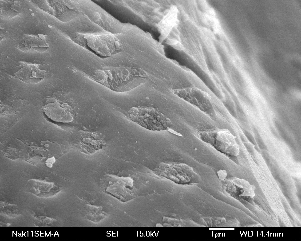 This is a scanning electron microscope (SEM) image of a series of partly filled pits on the surface of a mineral grain from Nakhla. Similar pits are sometimes found on Earth minerals which have been exposed to microbial attack. They are interpreted as etch features caused by organic acid generated by microbes and their biofilms. The pits in the Martian minerals are partly filled with debris, possibly the clay-like remains of organic microbes.